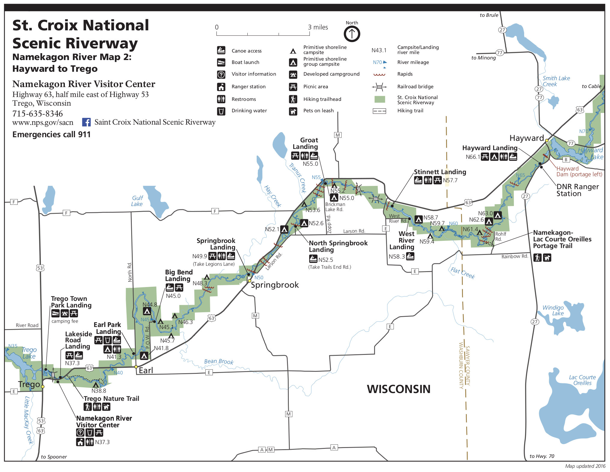 Map 2: Here we have another Namekagon River map showing Hayward Landing to Trego, and includes the Namekagon River Visitor Center. This map spans Sawyer and Washburn counties.